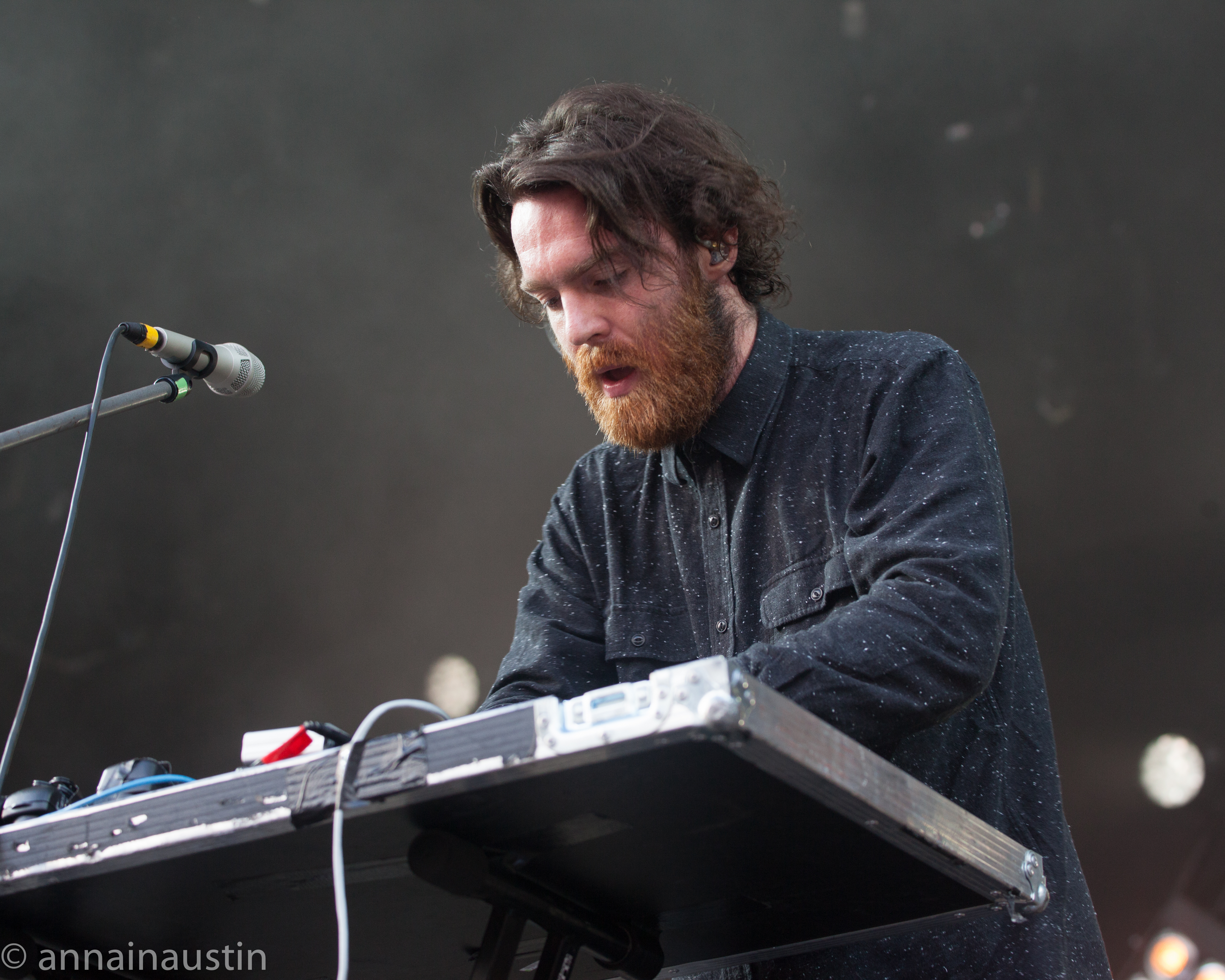 The musician is performing at a music festival